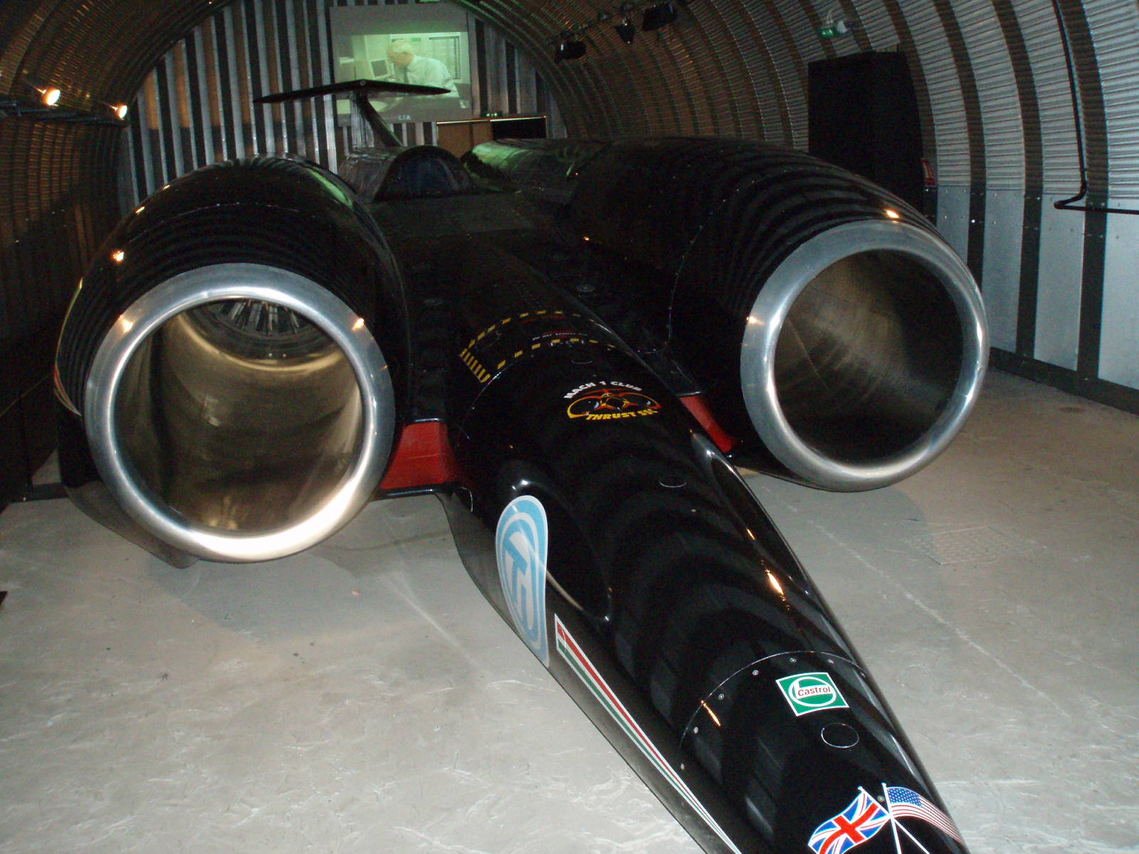 SSC on display at Coventry Transport Museum, April 2007.